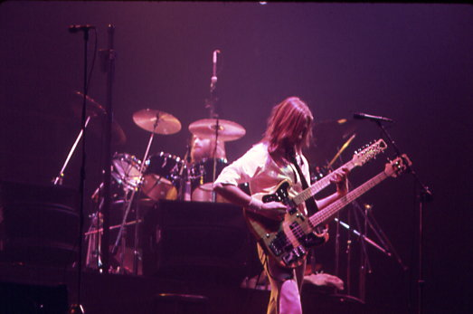 Mike Rutheford & Phil Collins Maple Leaf Gardens, Toronto, June 3,1977